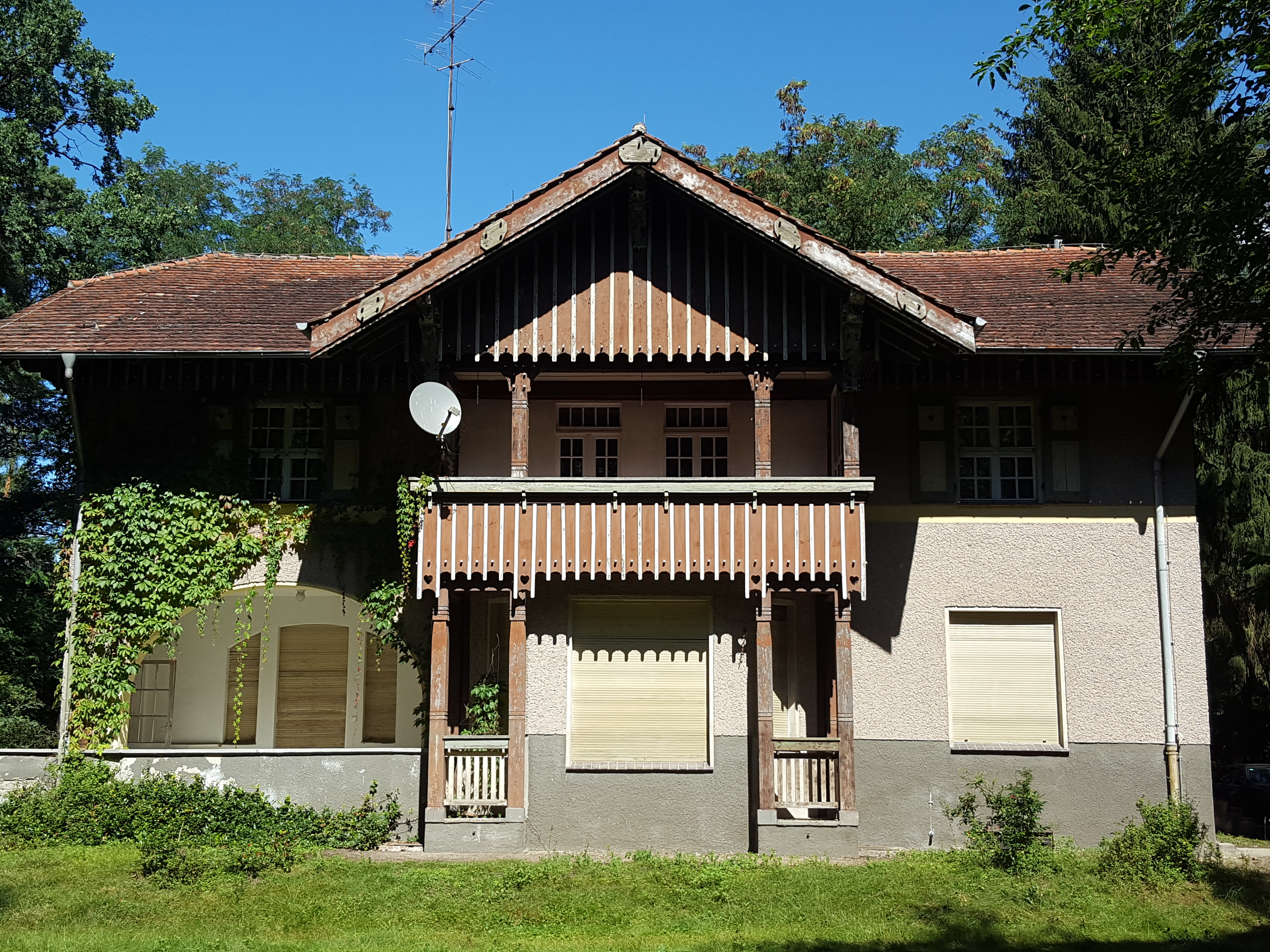 Mansion of Ulrici in Sommerfeld by Kremmen, park-situation, view from south